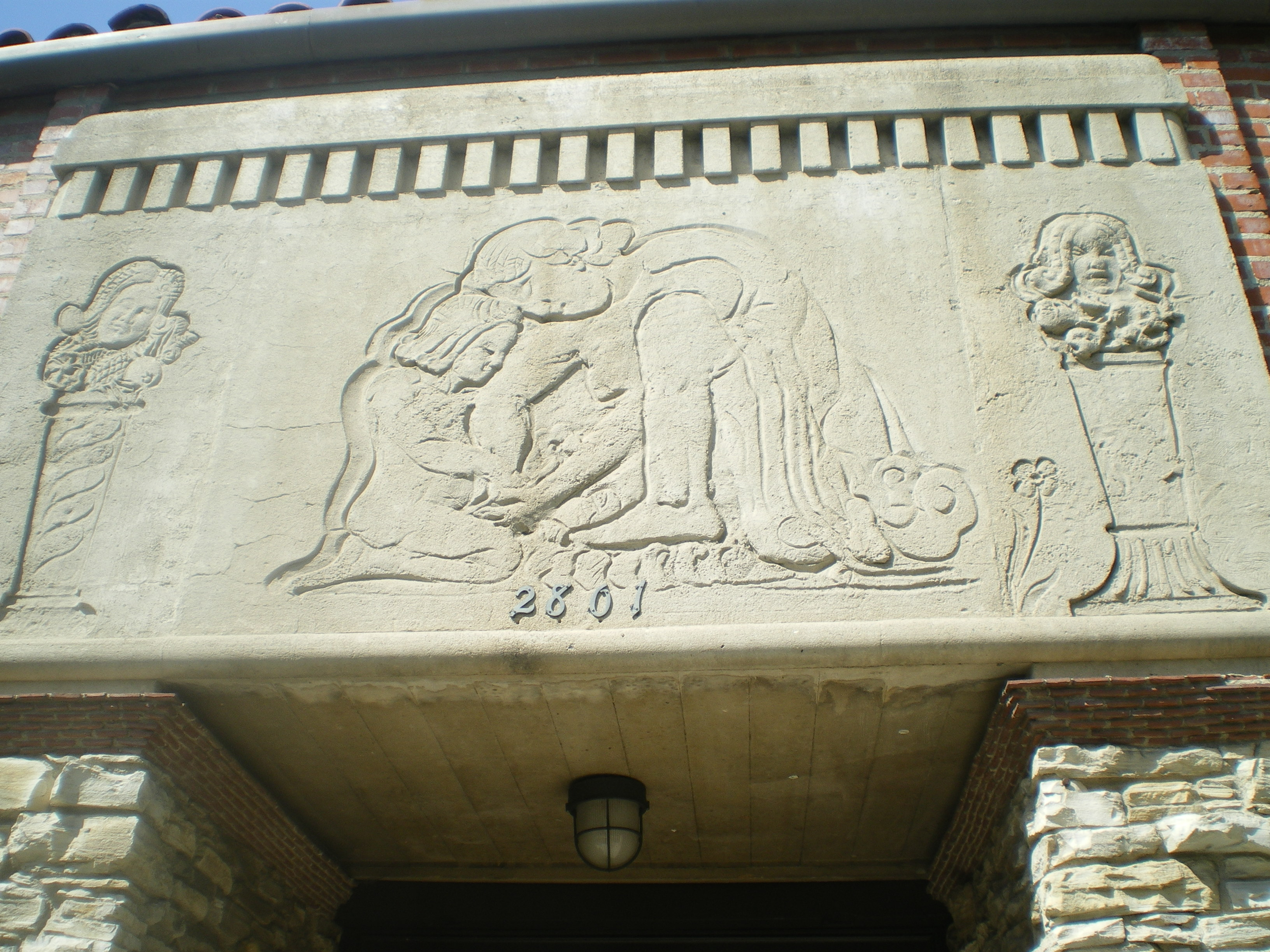 Detail of Frieze relief above entrance — Malabar Branch Library. Boyle Heights, Los Angeles, California. Los Angeles Historic-Cultural Monument and on the National Register of Historic Places.